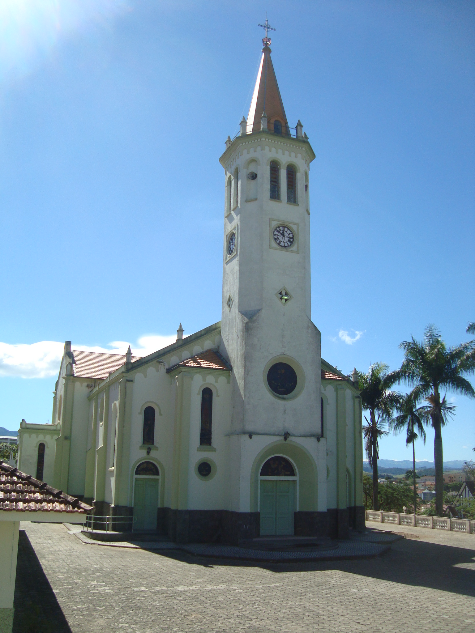 Saint Anthony Church in Jacutinga, Minas Gerais, Brazil